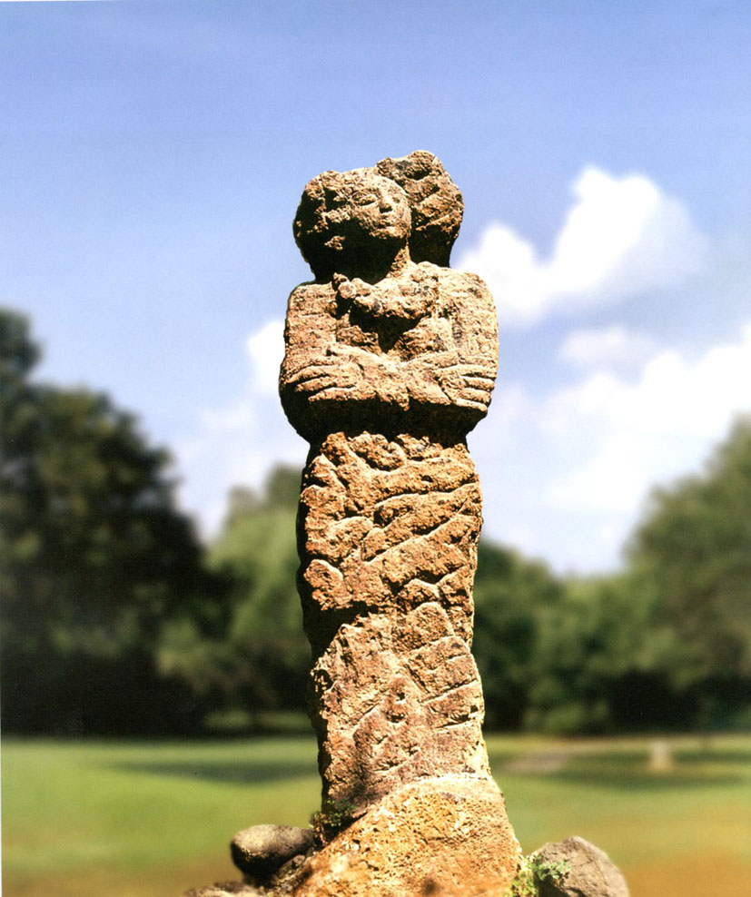 Anahit, 1964, sculptor Hagop Ishkanian